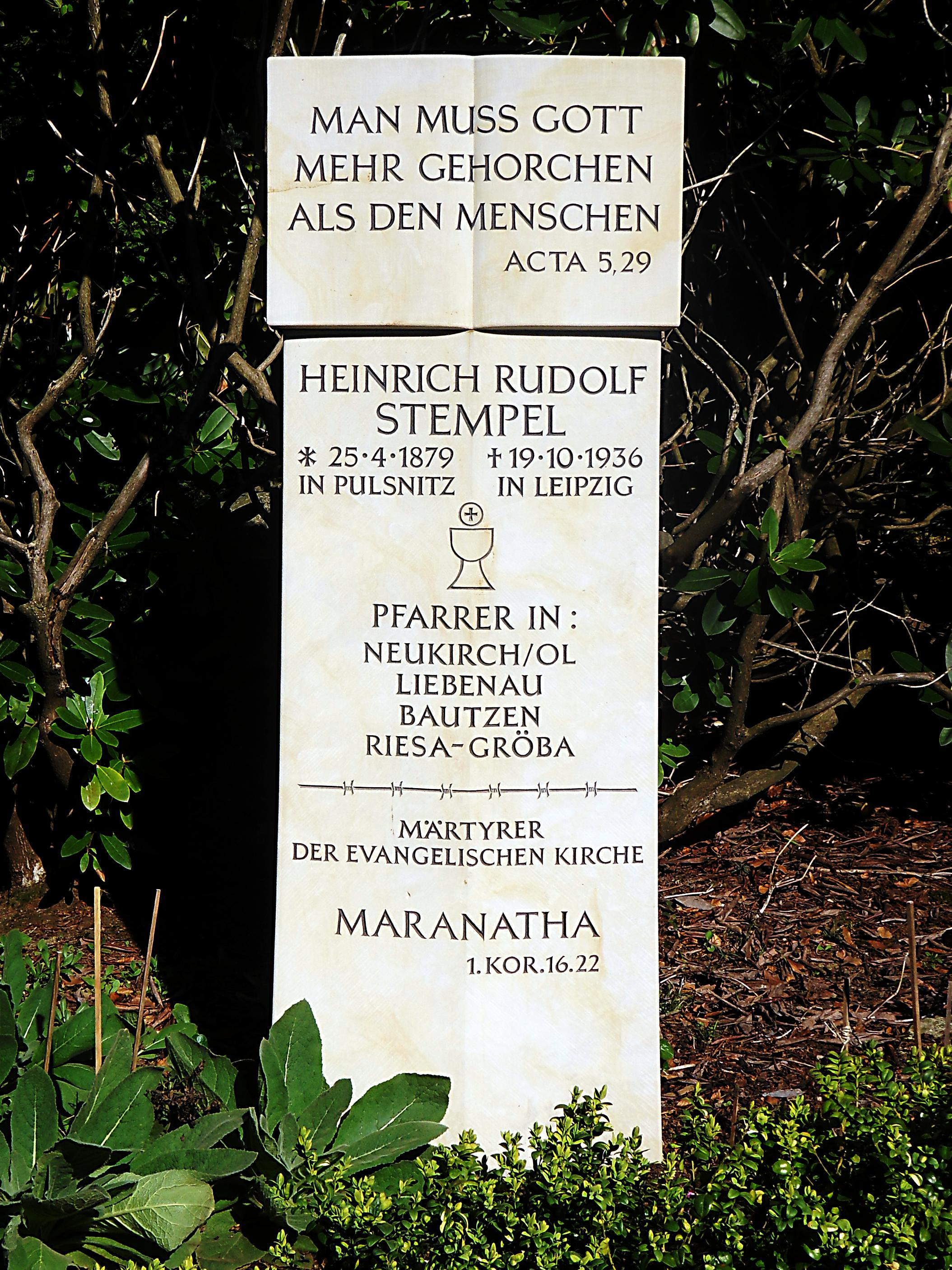 Headstone of Heinrich Rudolf Stempel (1879-1936), Martyr of the "Evangelische Kirche"